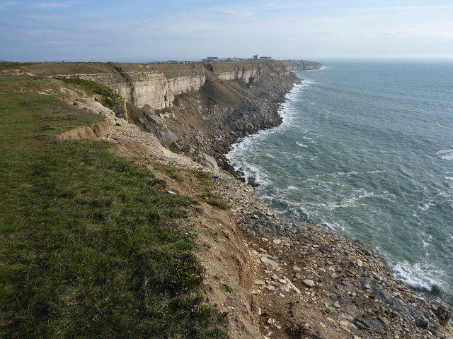 Mutton Cove Views extend down the southern half of the west side of Portland, beyond the Admiralty buildings, now Southwell Business Park, to the coastguard lookout building and Old Higher Lighthouse just north of Portland Bill.